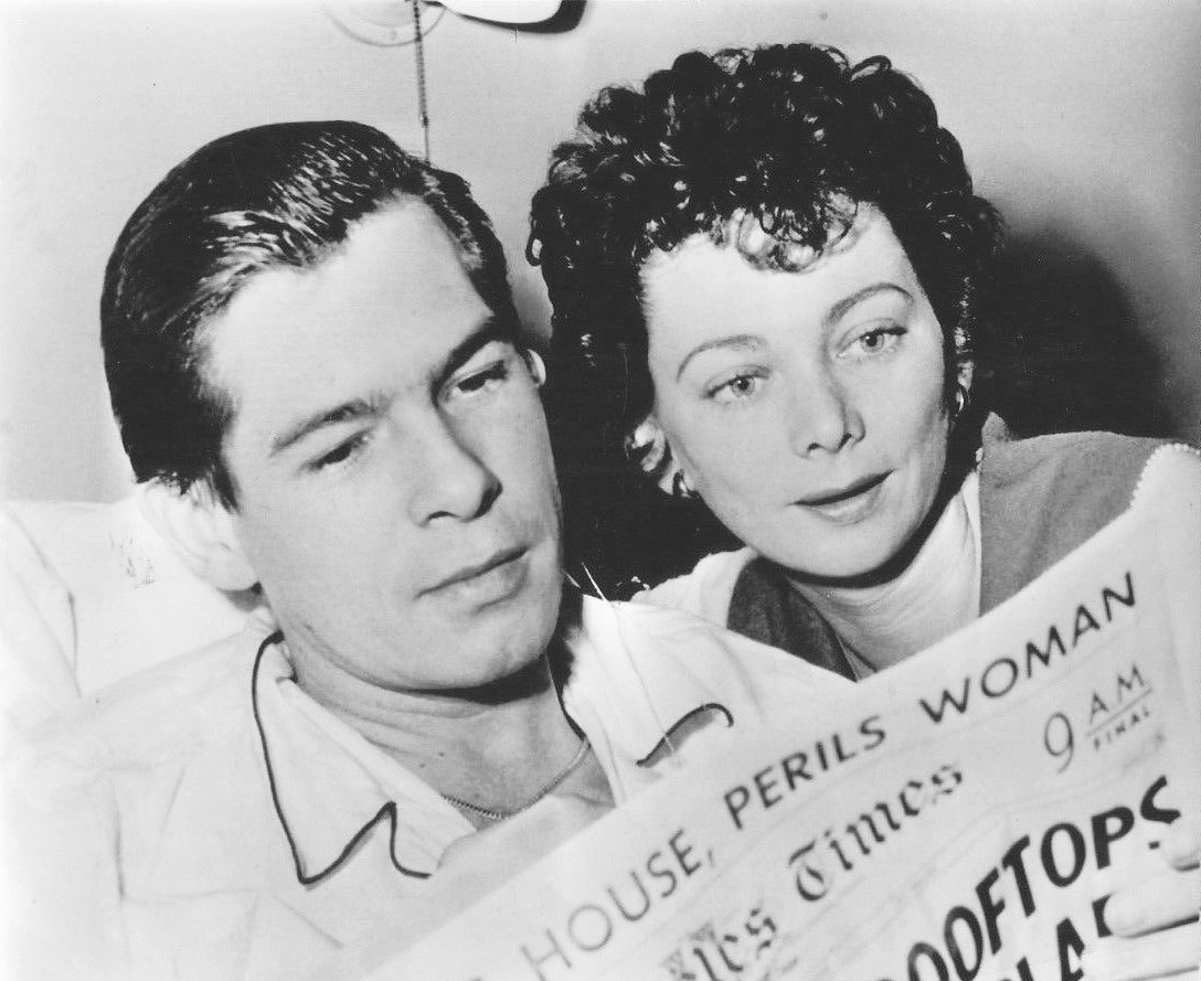 Johnnie Ray and wife in 1954